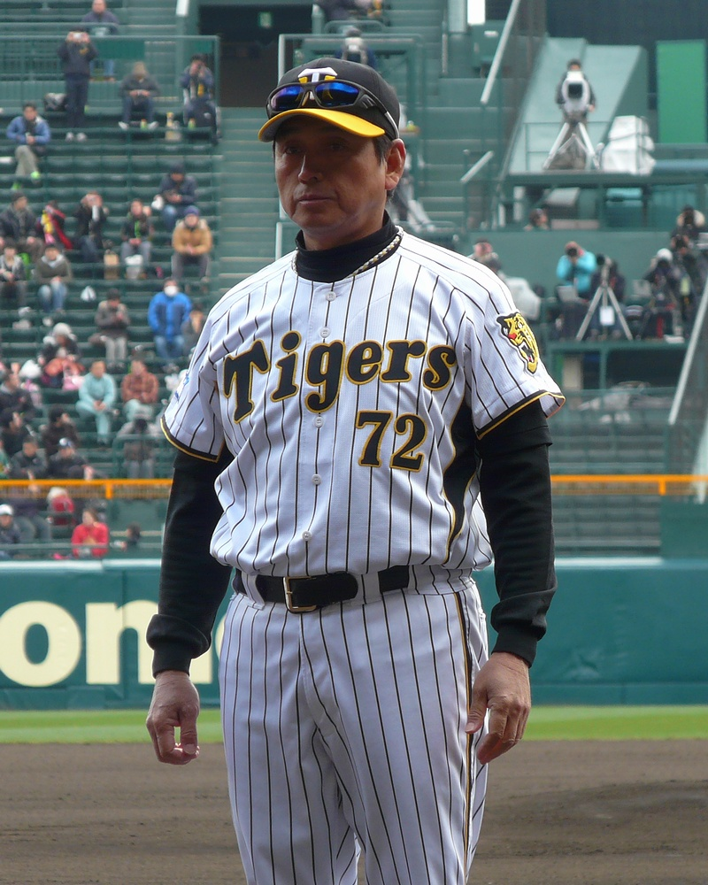 HT-Akinobu-Mayumi20110309